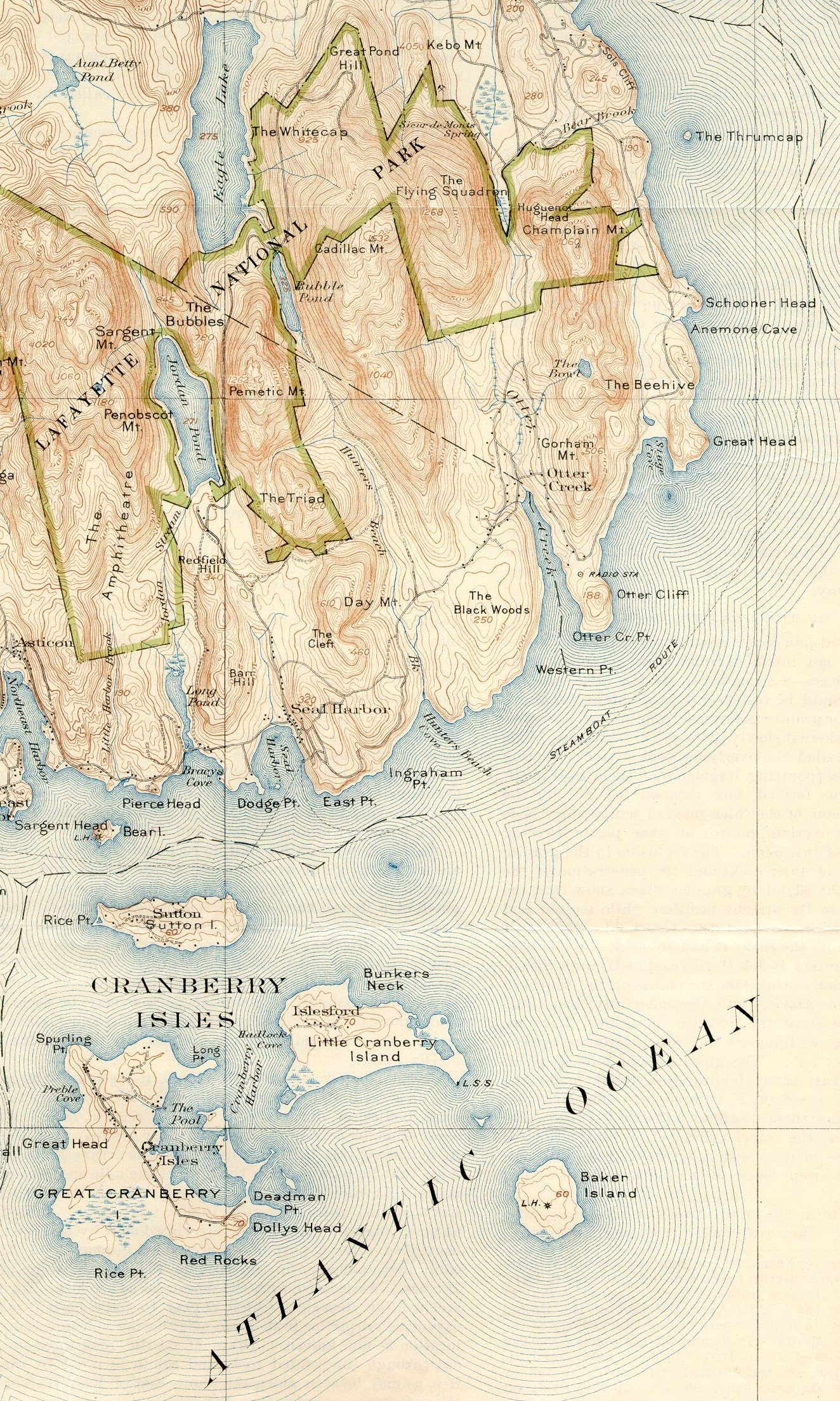 Map of a portion of Mount Desert Island showing the location of the former Otter Cliffs Radio Station; Bar Harbor, Maine, USA. This is a cropped portion of the United States Geological Service (USGS) map, 15 Minute Series, Bar Harbor, ME Quadrangle, published 1922.